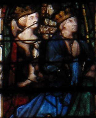 Joan II of Naples and James II of Bourbon-La Marche